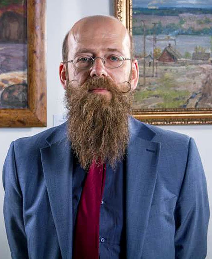 Prof. Michele Bacci